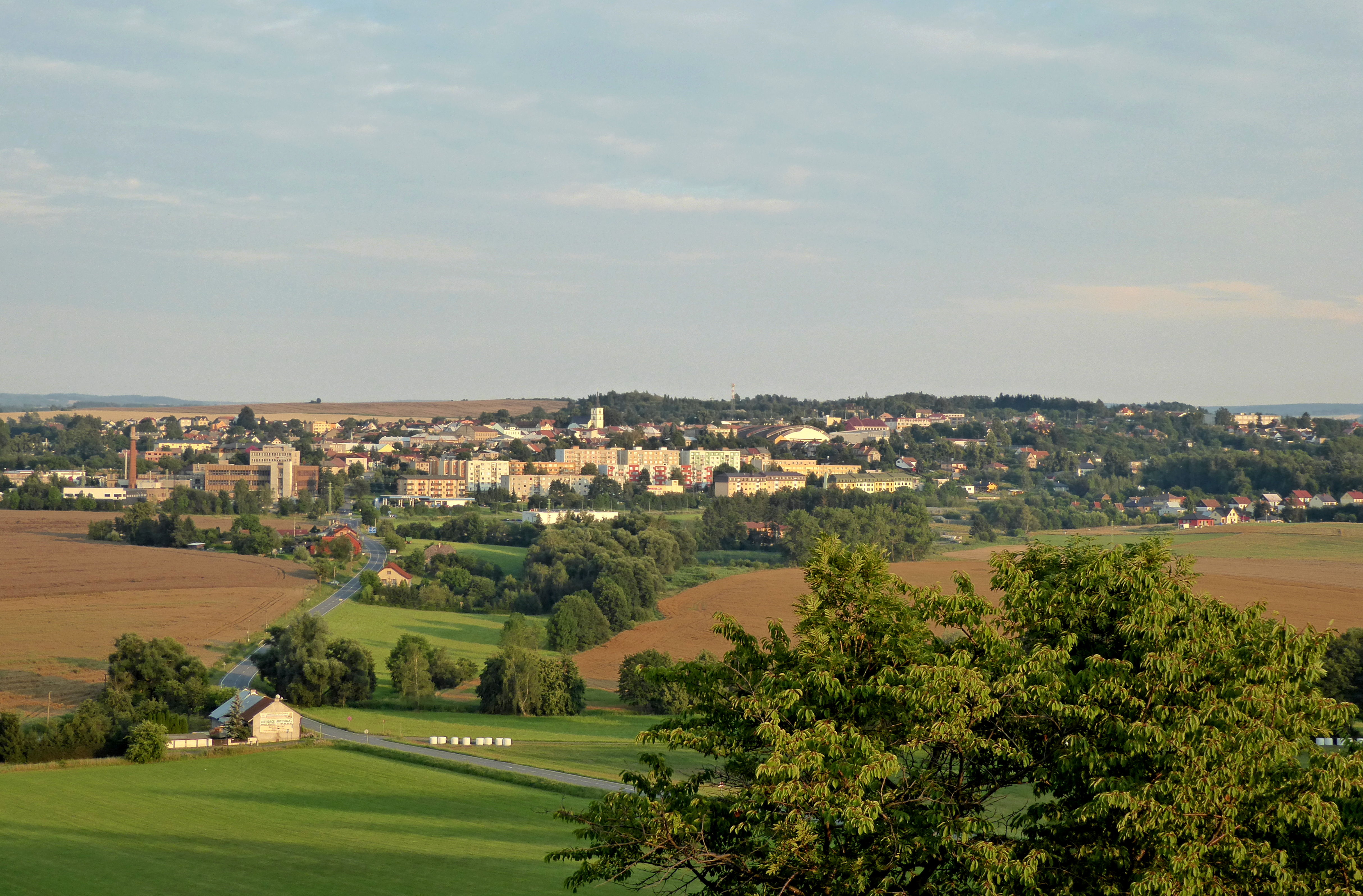 The town Skuteč (district Chrudim) in Pardubice region of Czech Republic. Photo location - Czechia, Pardubice Region, Skuteč town.